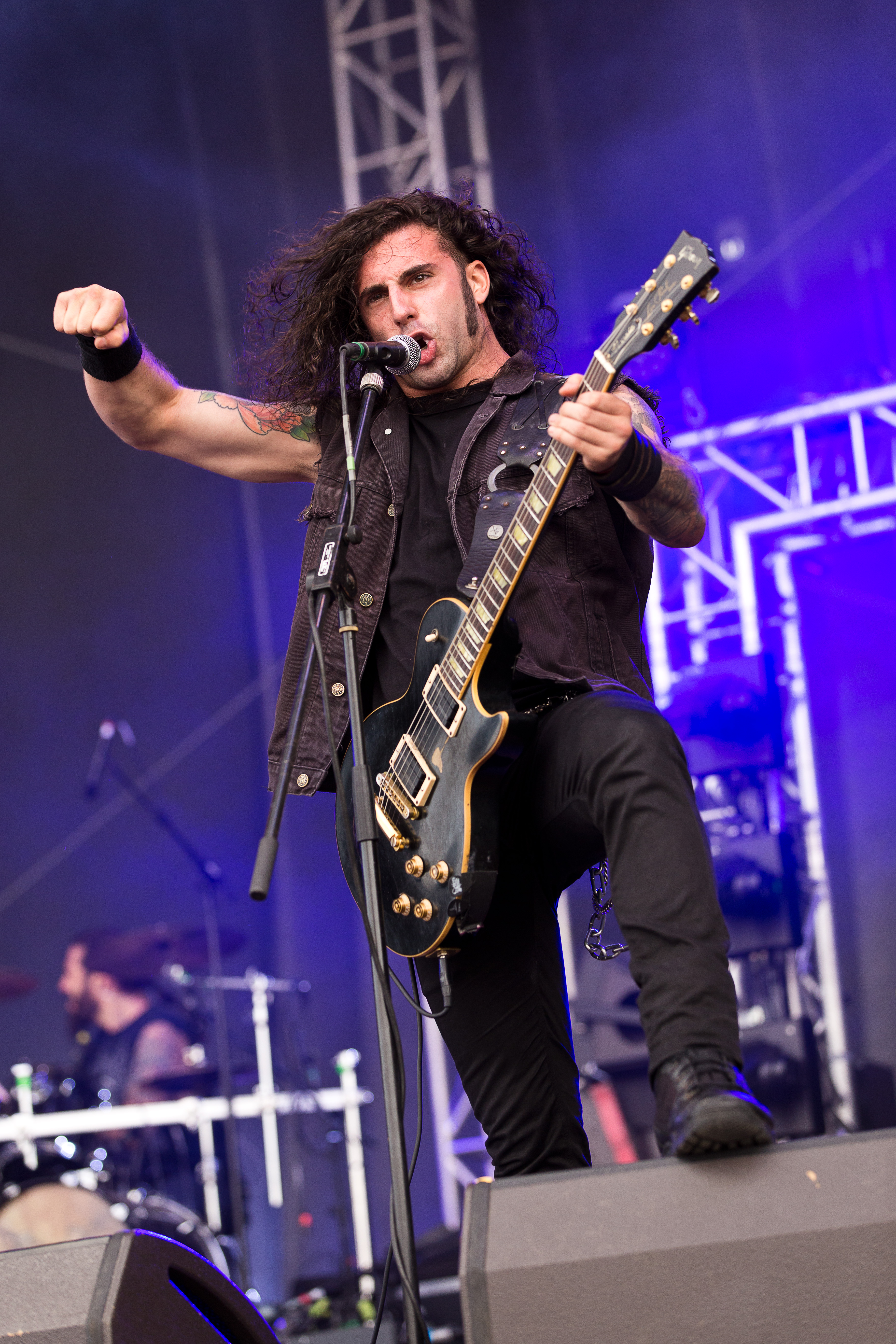 The Greek metal band Rotting Christ at the Party.San Open Air 2015 in Obermehler-Schlotheim/Germany.